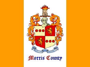 Morris County, New Jersey Flag